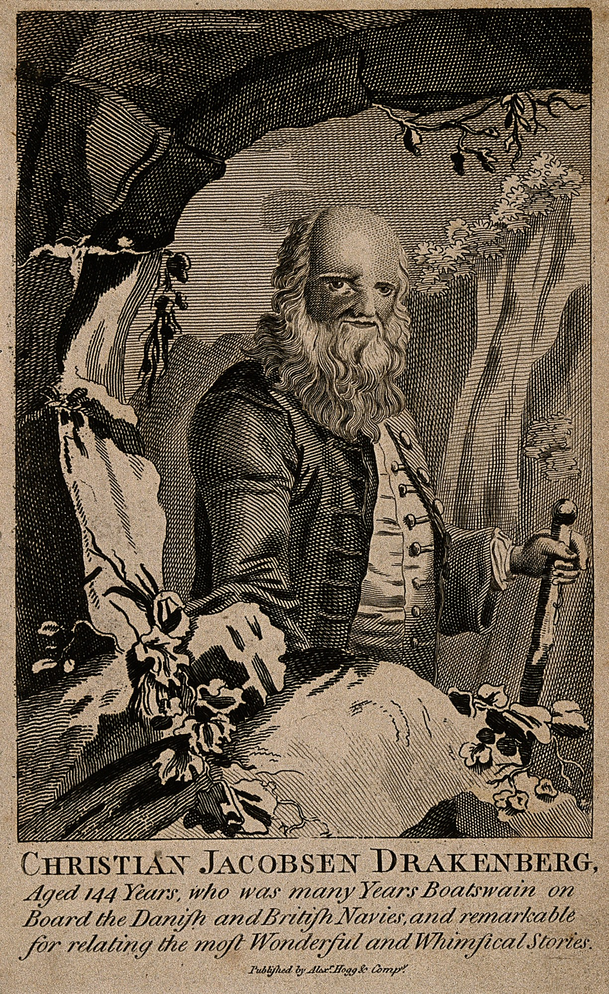 Christian Jacobsen Drakenberg, a man aged 144. Engraving. Iconographic Collections Keywords: Christian Jacobsen Drakenberg